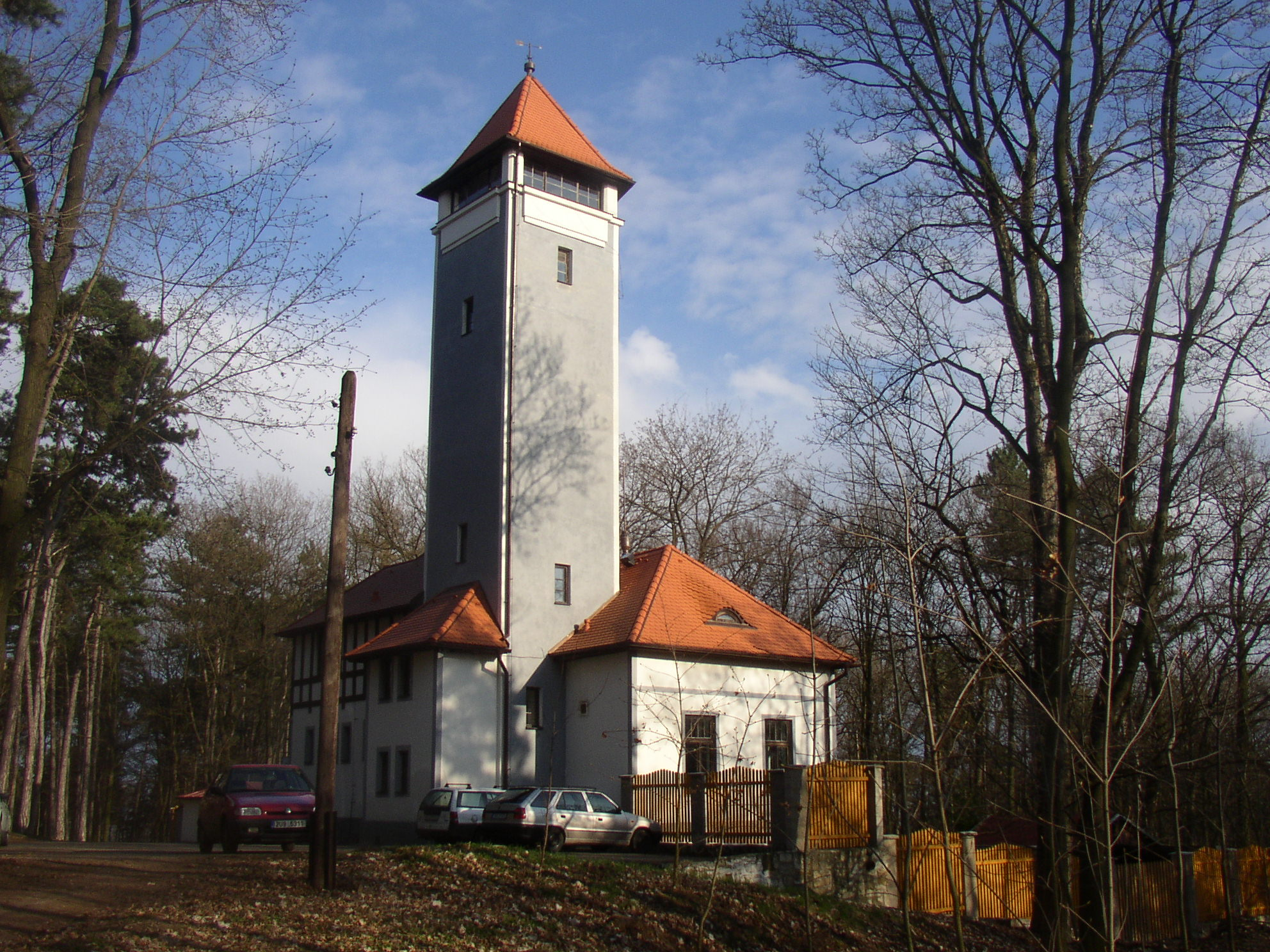 Restaurant and lookout tower at Mostná hora (Bridge Hill) in Litoměřice, Czech Republic.